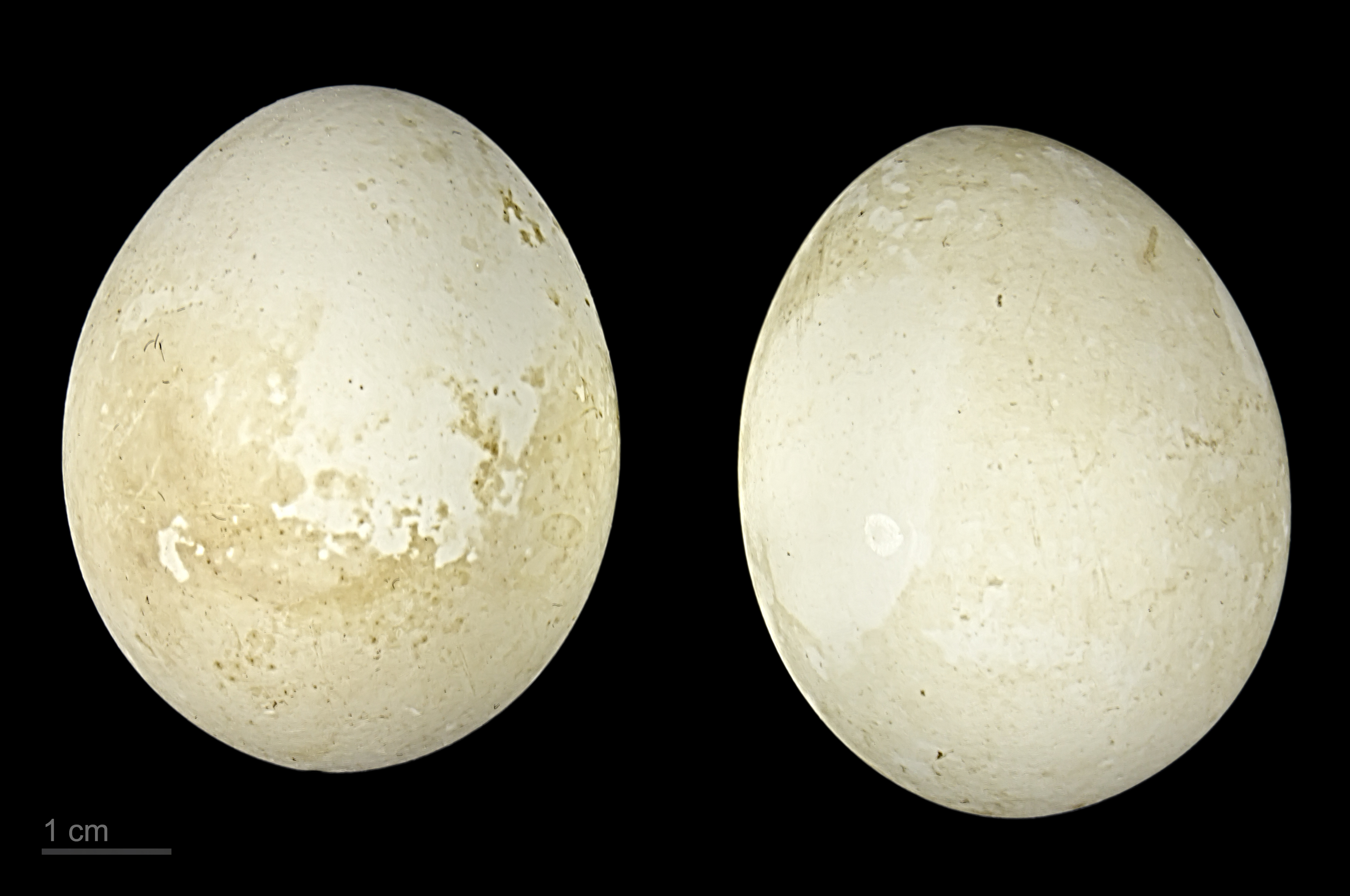 Eggs of wandering whistling duck Two specimens of the same spawn ; collection of Jacques Perrin de Brichambaut.